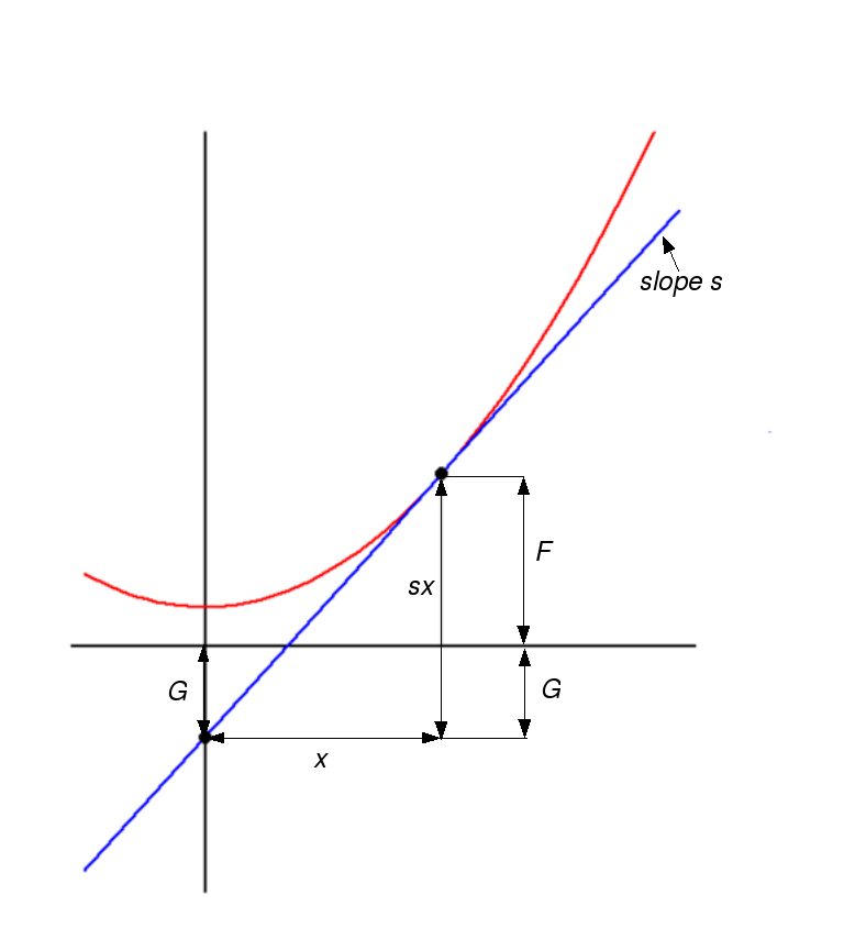 Diagram showing the geometric interpretation of the Legendre transform.